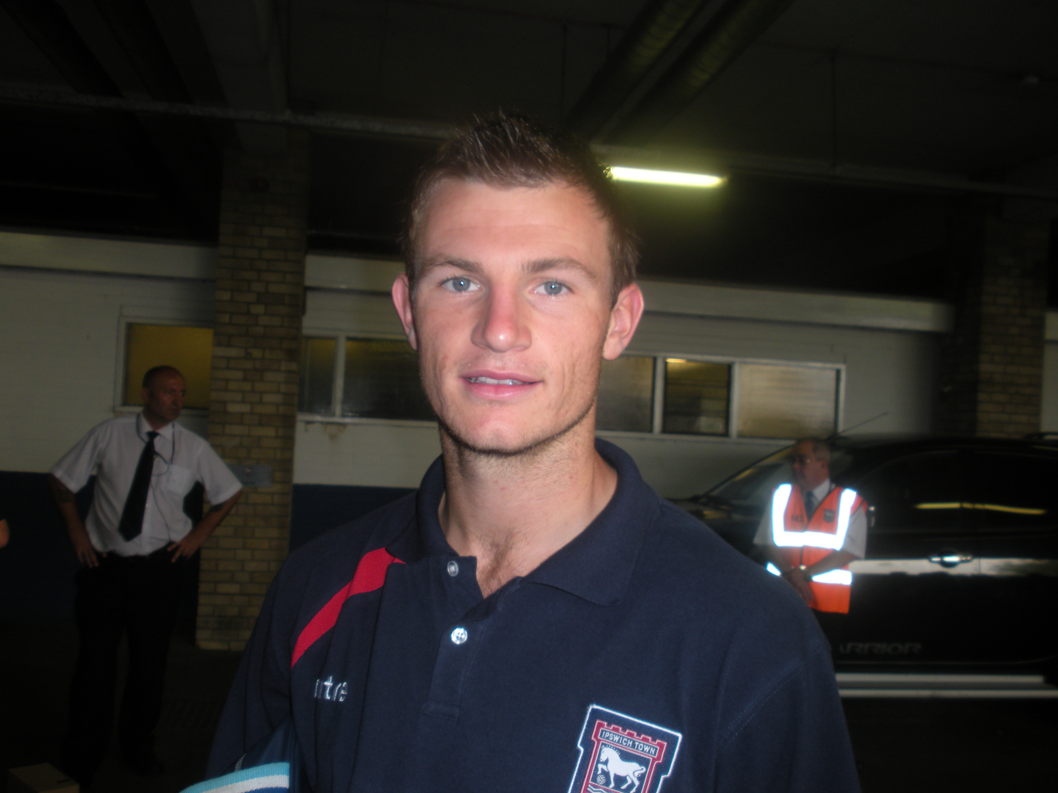 Tommy Smith, Ipswich Town player. Author also gives permission for file to be used by Simply Blue